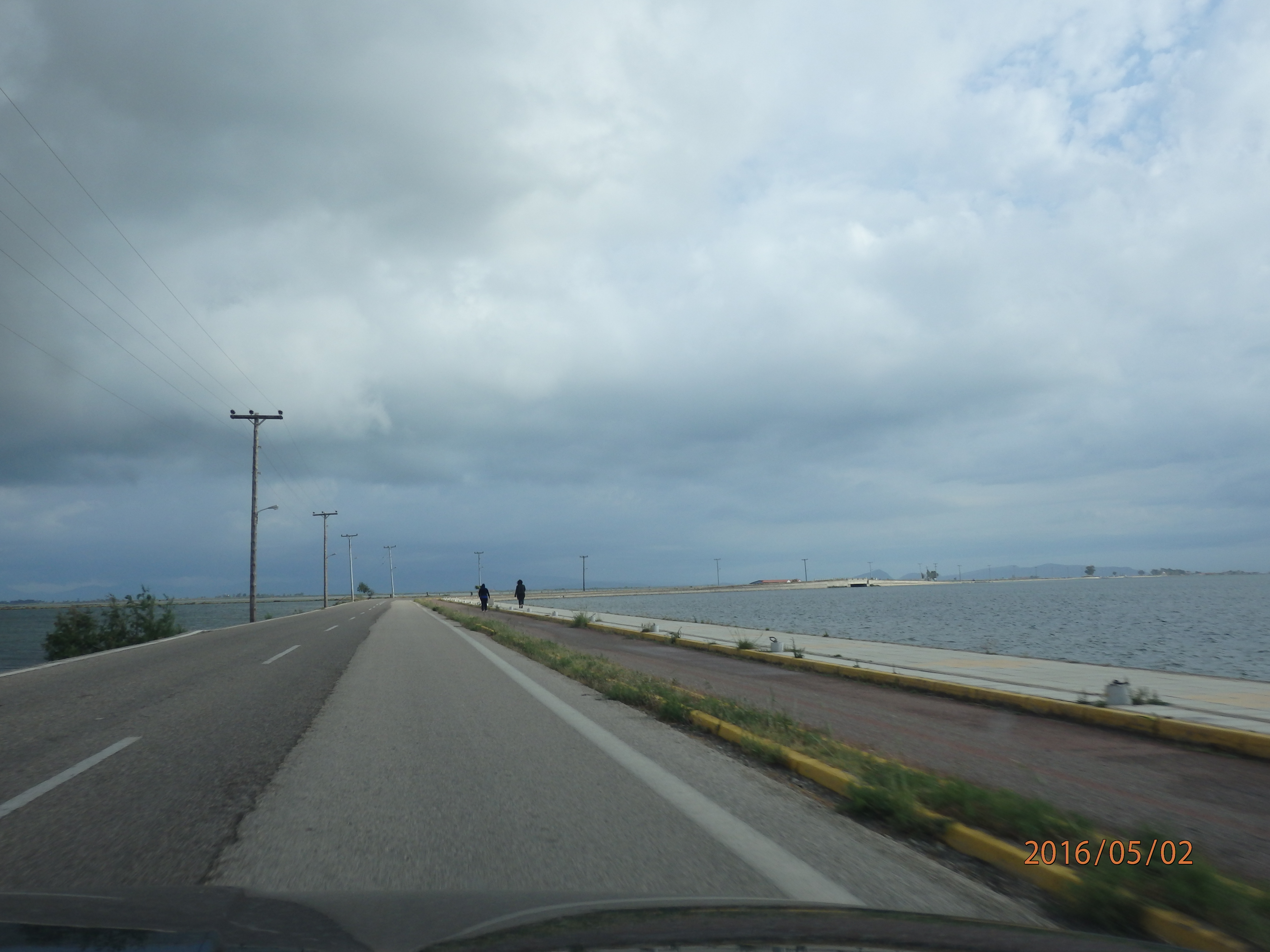 This is a photography of Natura 2000 protected area with ID GR2310001